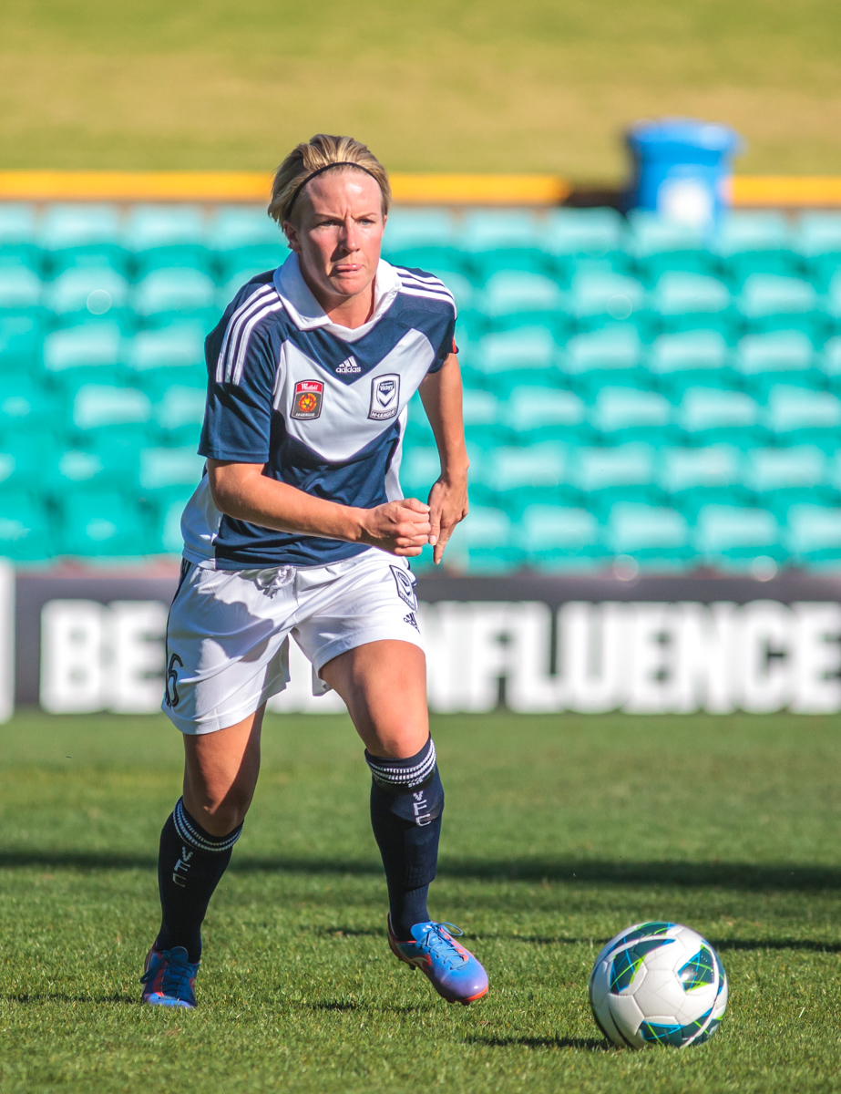 Petra Larsson playing for the Melbourne Victory W-League team in November 2012.